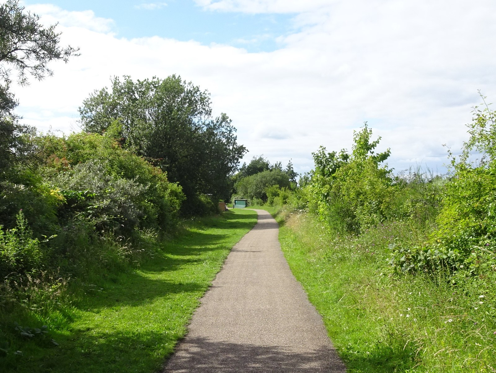 Stairfoot 2nd railway station (site), YorkshireOpened in 1871 by the Manchester Sheffield & Lincolnshire Railway on the line from Doncaster to Barnsley, this station replaced an earlier 1851 station immediately behind the camera position. In turn, the 1871 station closed to passengers in 1957. View north west along the track-bed towards Barnsley. The modern A635 under-bridge in the centre of the image cuts across where the 2 parallel platforms were. The track-bed is now a public footpath.